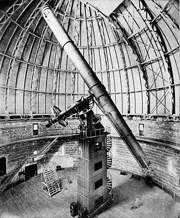 Yerkes Observatory, 40-inch equatorial refractor, Alvan Clark and Sons, Cambridgeport, Massachusetts, 1897.